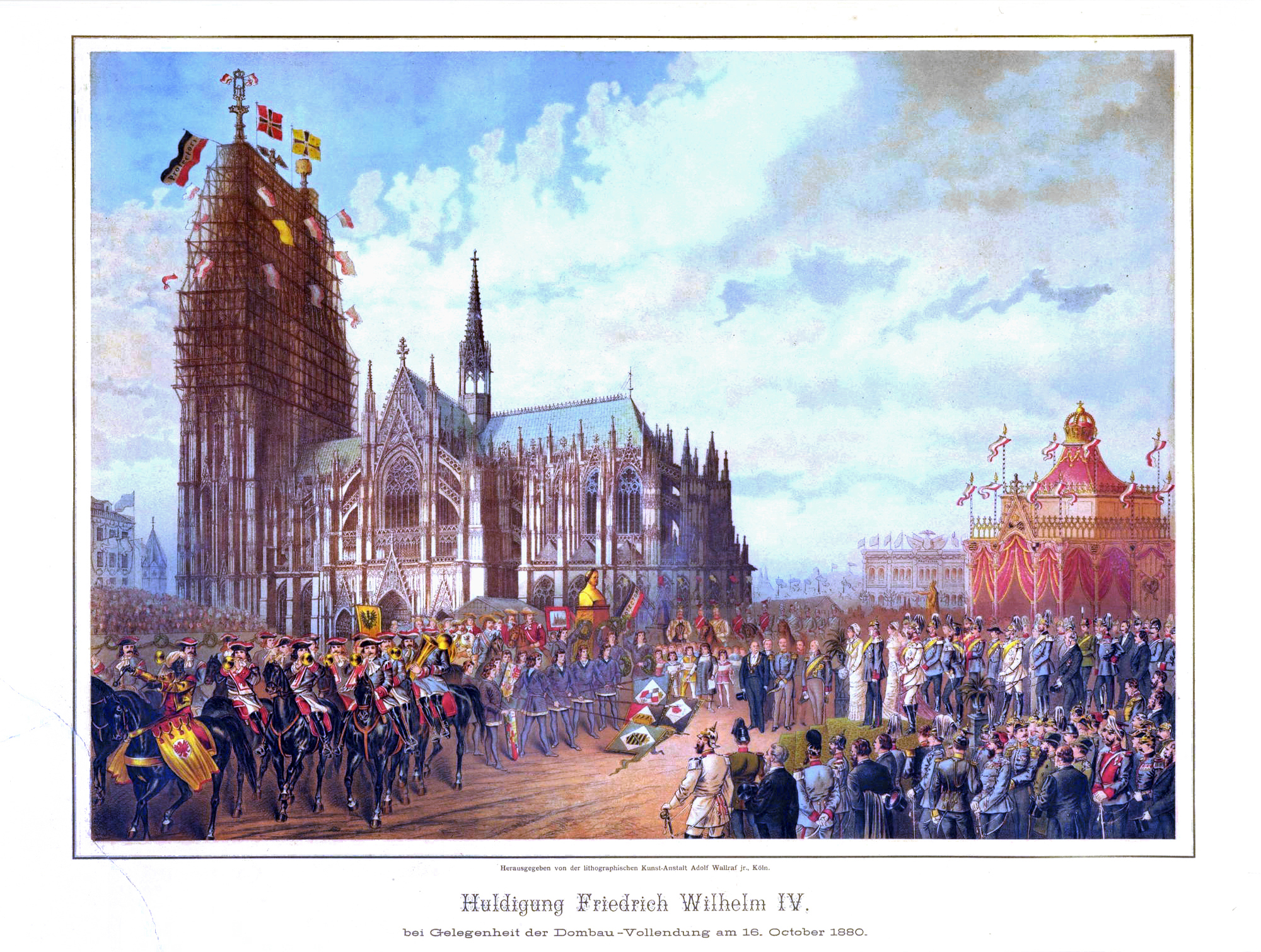 Colored lithography titled Huldigung Friedrich Wilhelm IV, bei Gelegenheit der Dombau-Vollendung am 16. October 1880, published in 1880 by the Lithographischen Kunst-Anstalt Adolf Wallraf jr. in Cologne.